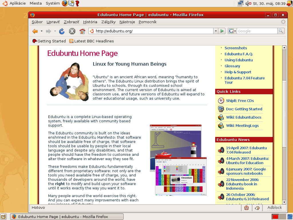 Edubuntu Feisty - Firefox